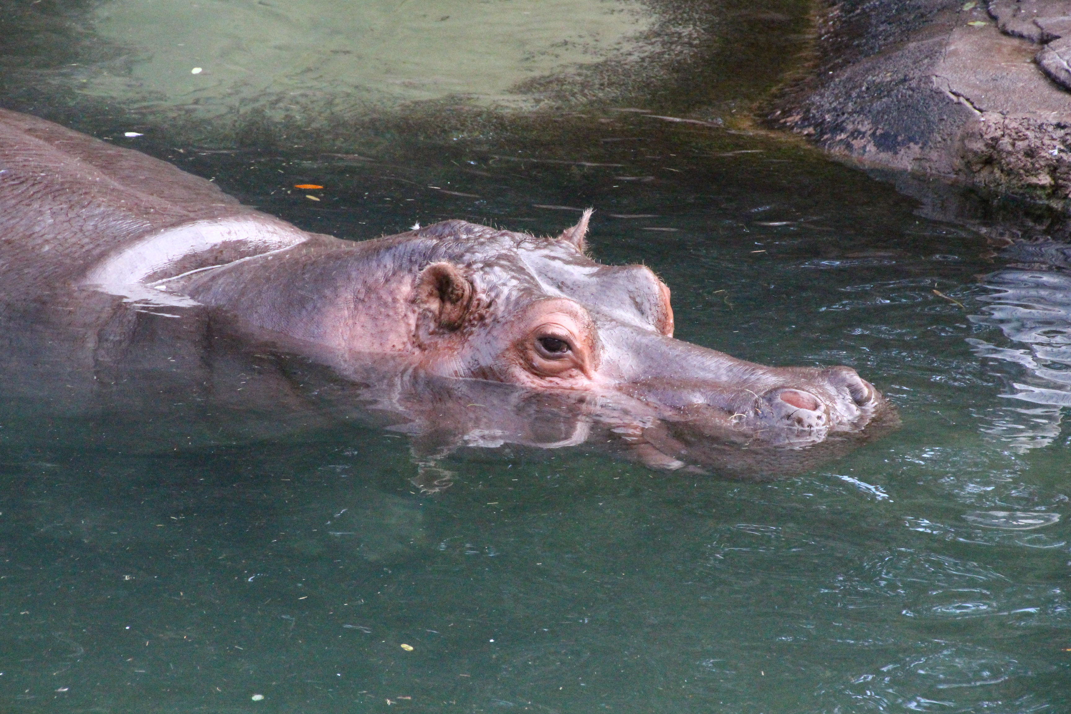 Hippopotamus (Hippopotamus amphibius) at the Kilimanjaro Safaris at Disney's Animal Kingdom in Lake Buena Vista, Florida.